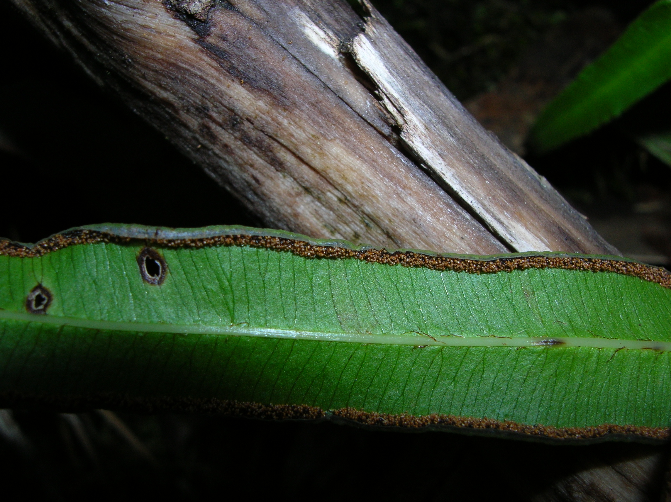 Pteris cretica (spores). Location: Maui, Puu Nianiau